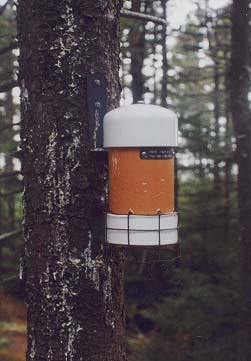 Photographed by Daniel Case 1998-09-21 at summit of Rocky Mountain. Scanned 2005-12-24.